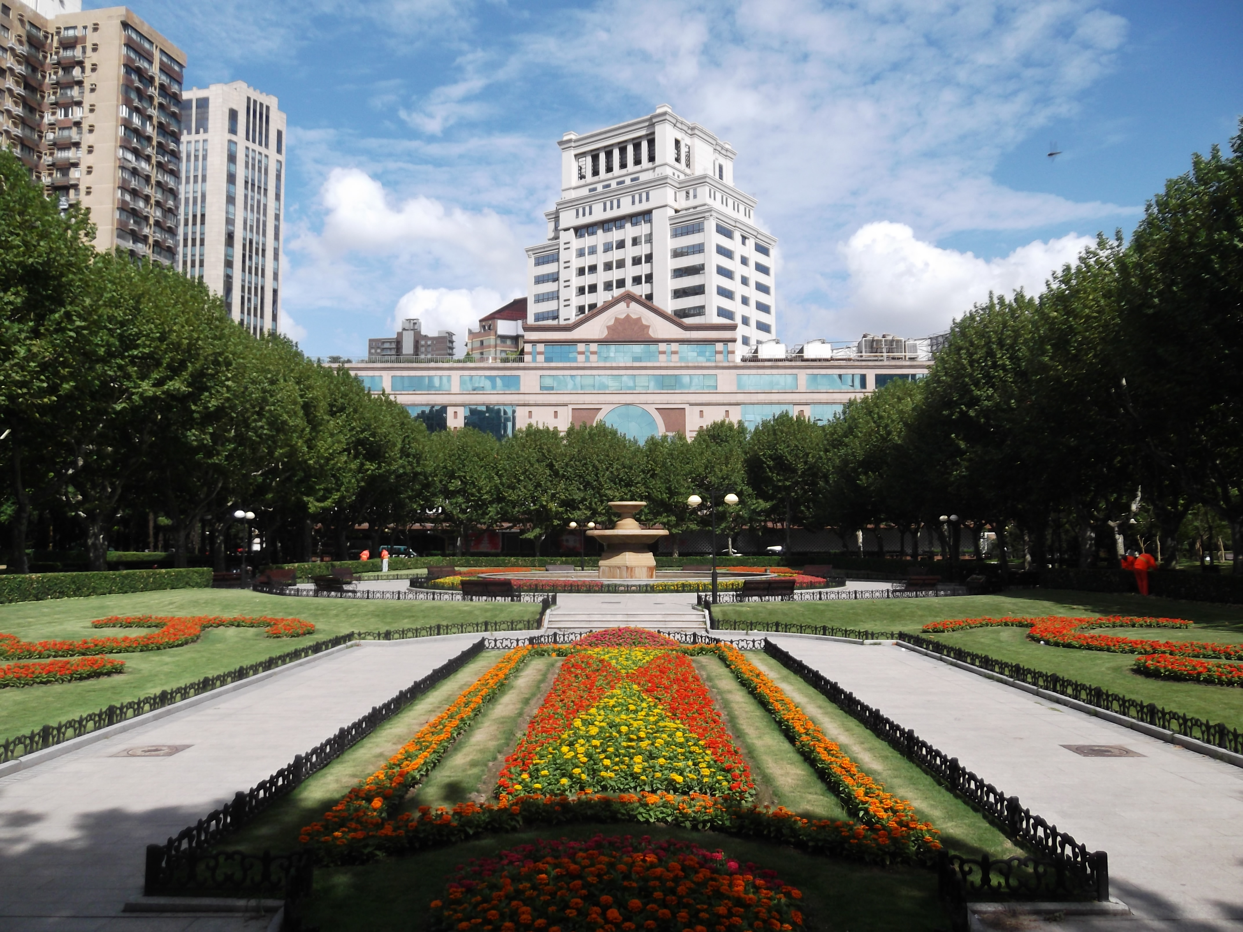 View in Fuxing Park, Shanghai, China.